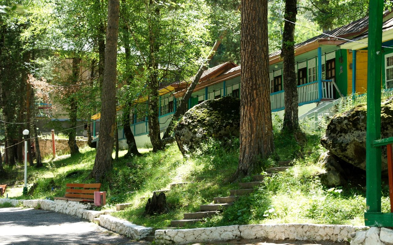 Shkhelda (climbing camp), Russia